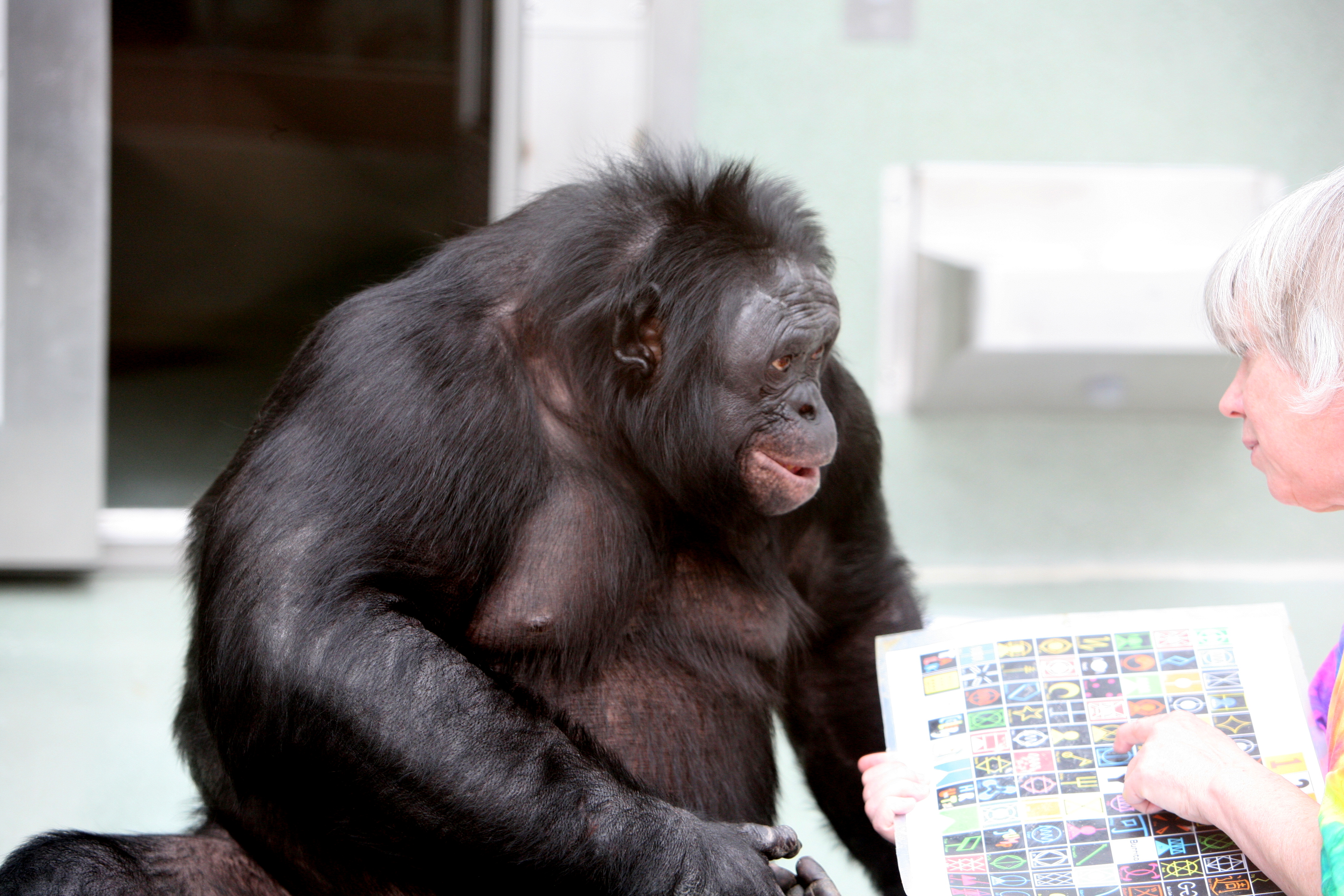 Kanzi, language-reared male bonobo, converses with Sue Savage-Rumbaugh in 2006 using a portable "keyboard" of arbitrary symbols that Kanzi associates with words.